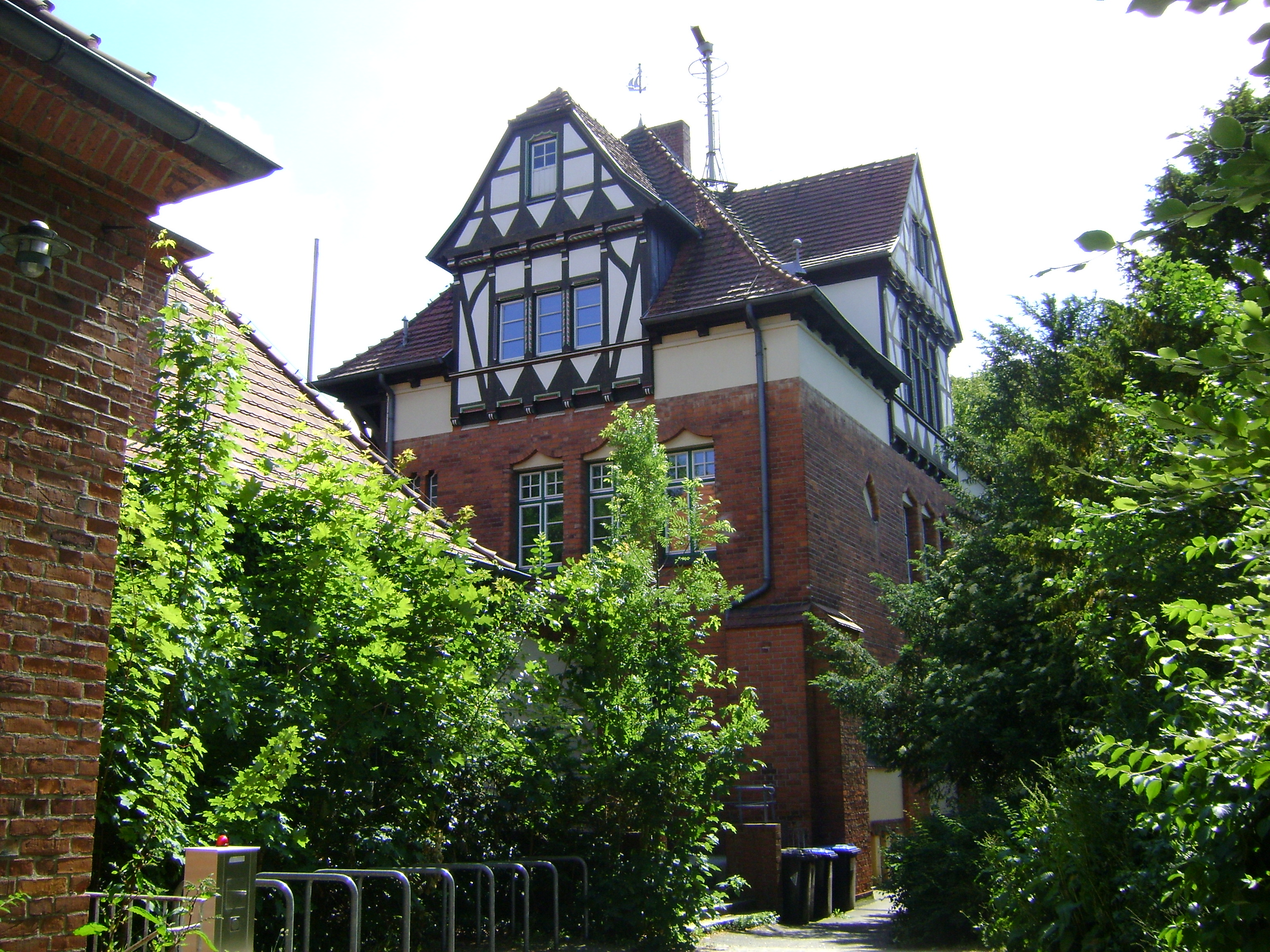 Access to the building of the former Naval School Luebeck, 40 Wallstreet - in 2009